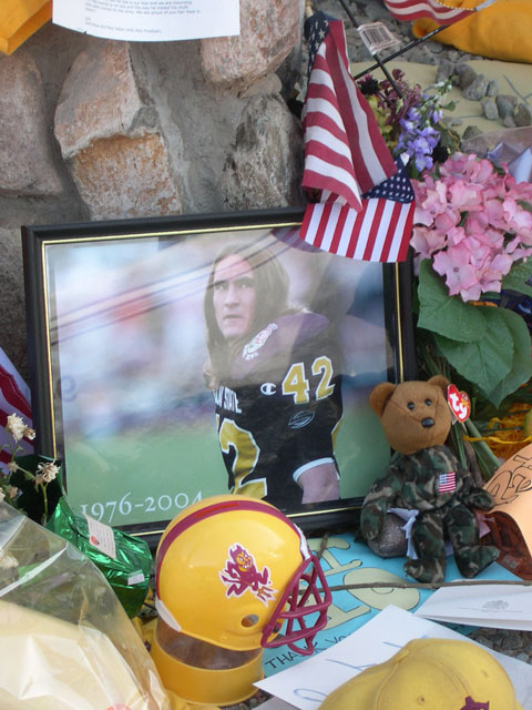 This memorial was set up by fans of Pat Tillman outside Sun Devil Stadium where he played football for the Arizona State University Sun Devils and the Arizona Cardinals.